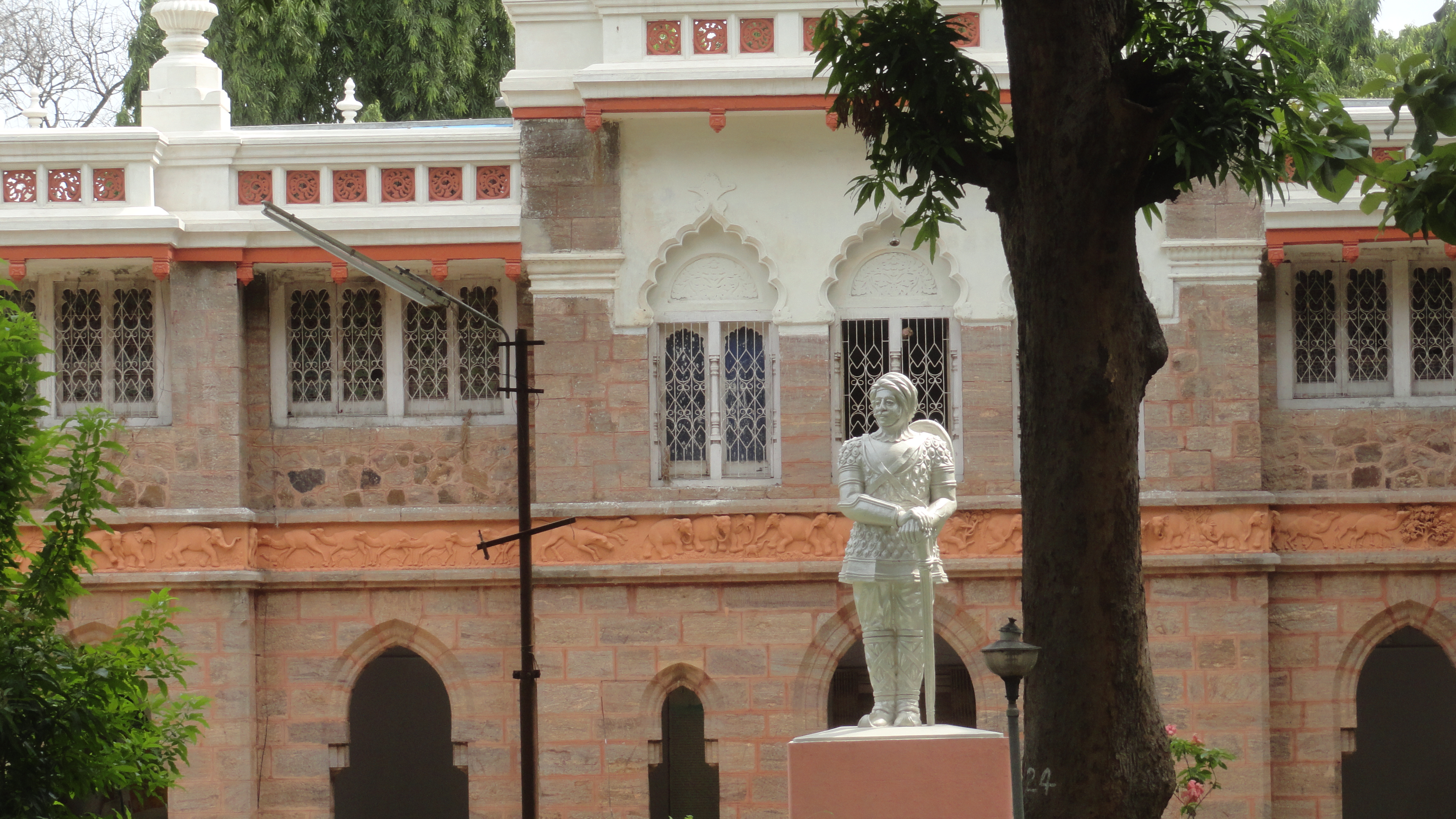 Andhra layola college